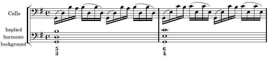 Example of implied harmonies in a monodic line. From {J.S. Bach} Cello Suite no. 1 in G, BWV 1007